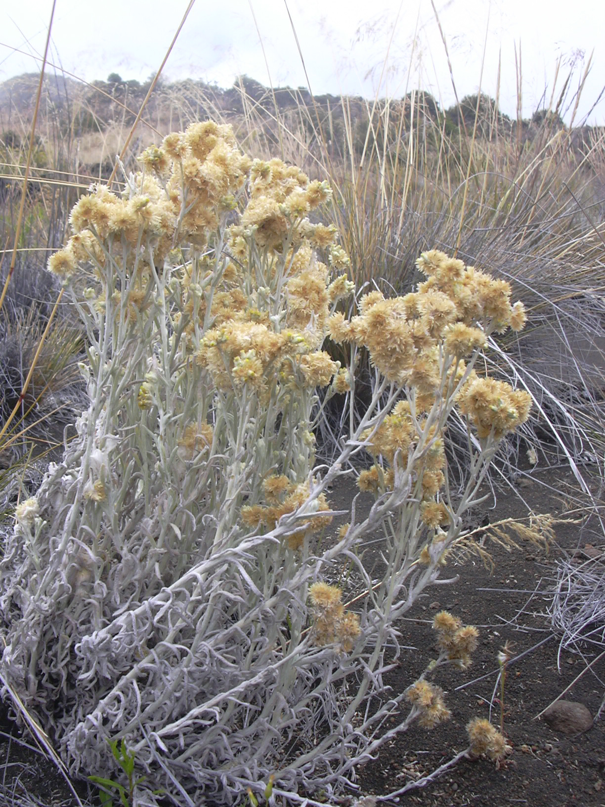 Gnaphalium sandwicensium (flowers). Location: Hawaii, Puu Kole